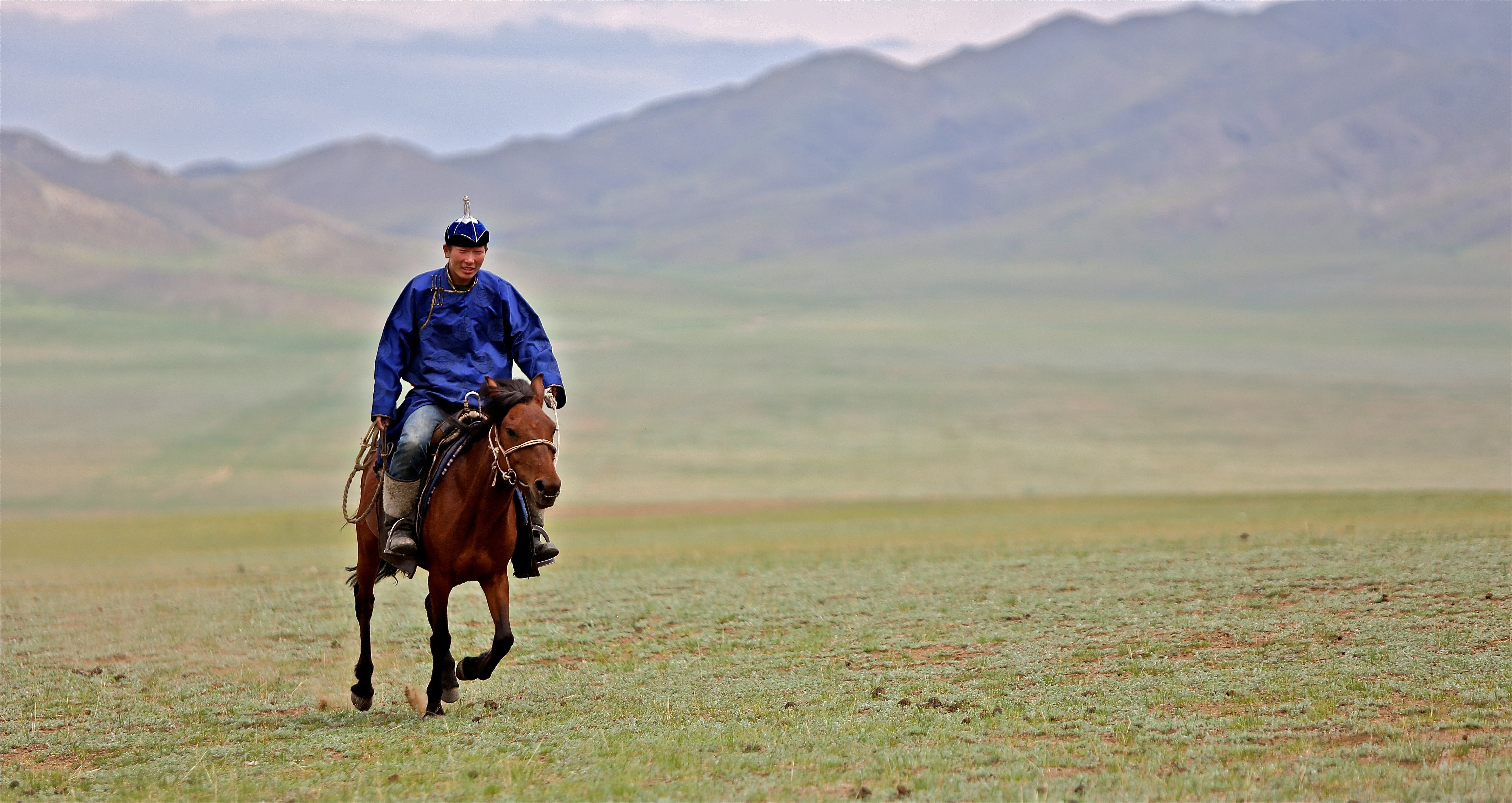 Rider in Mongolia, 2012. The slow-paced nomadic life on the plains of Mongolia is fast disappearing. While the horse continues to be revered as the national symbol, they are fast being replaced by motorized vehicles.